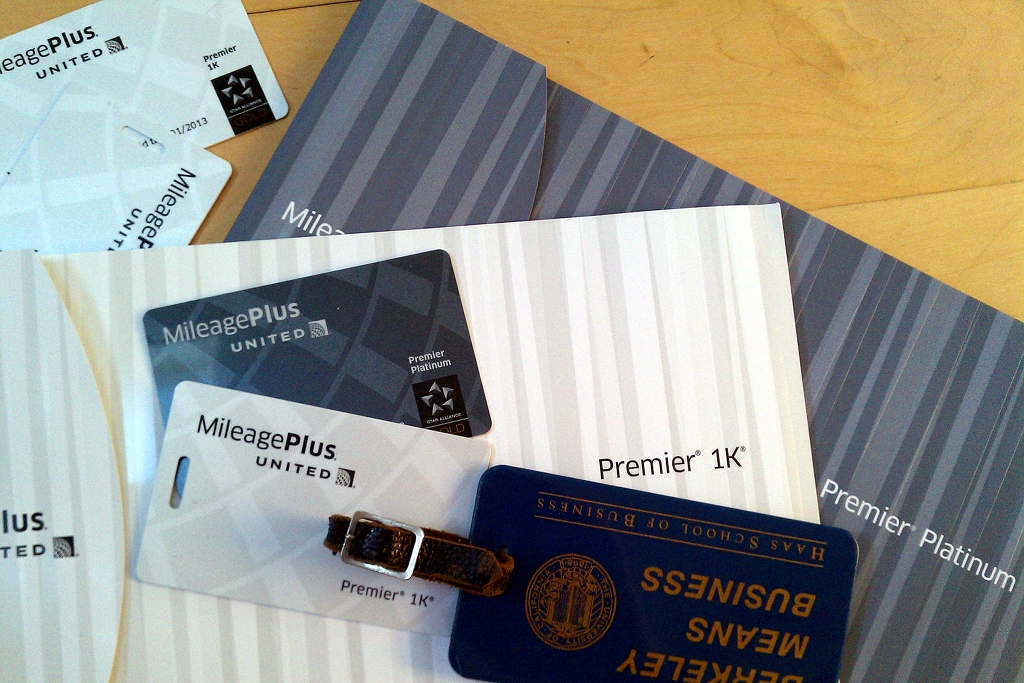 United MileagePlus Premier Platinum and 1K credentials